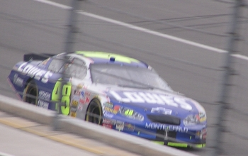 Jimmie Johnson during qualifying for the 2005 Auto Club 500 at California Speedway